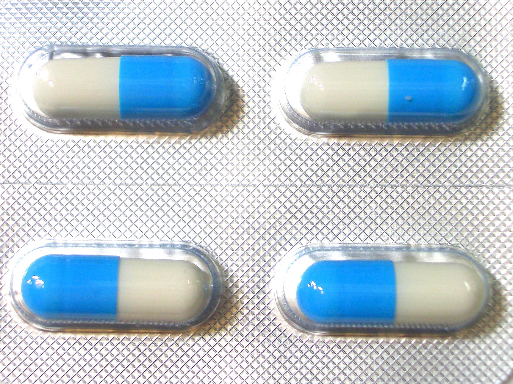 capsules